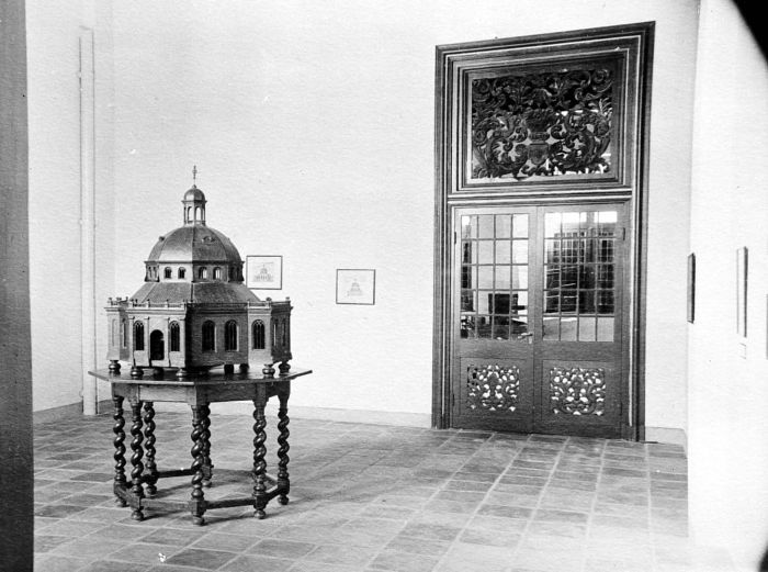 Scale model of the 'Nieuwe Hollandse Kerk' in the museum of the 'Stichting Oud Batavia'